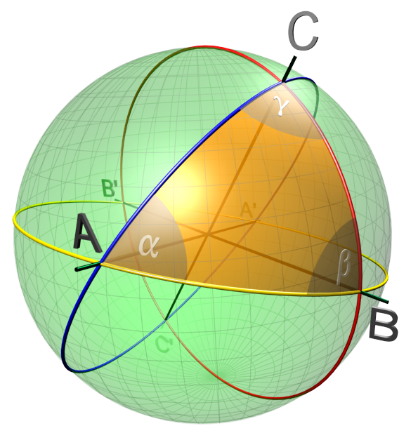 Illustration of the geometrical spherical triangle